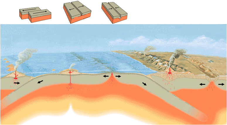 Tectonics plates map with no labels